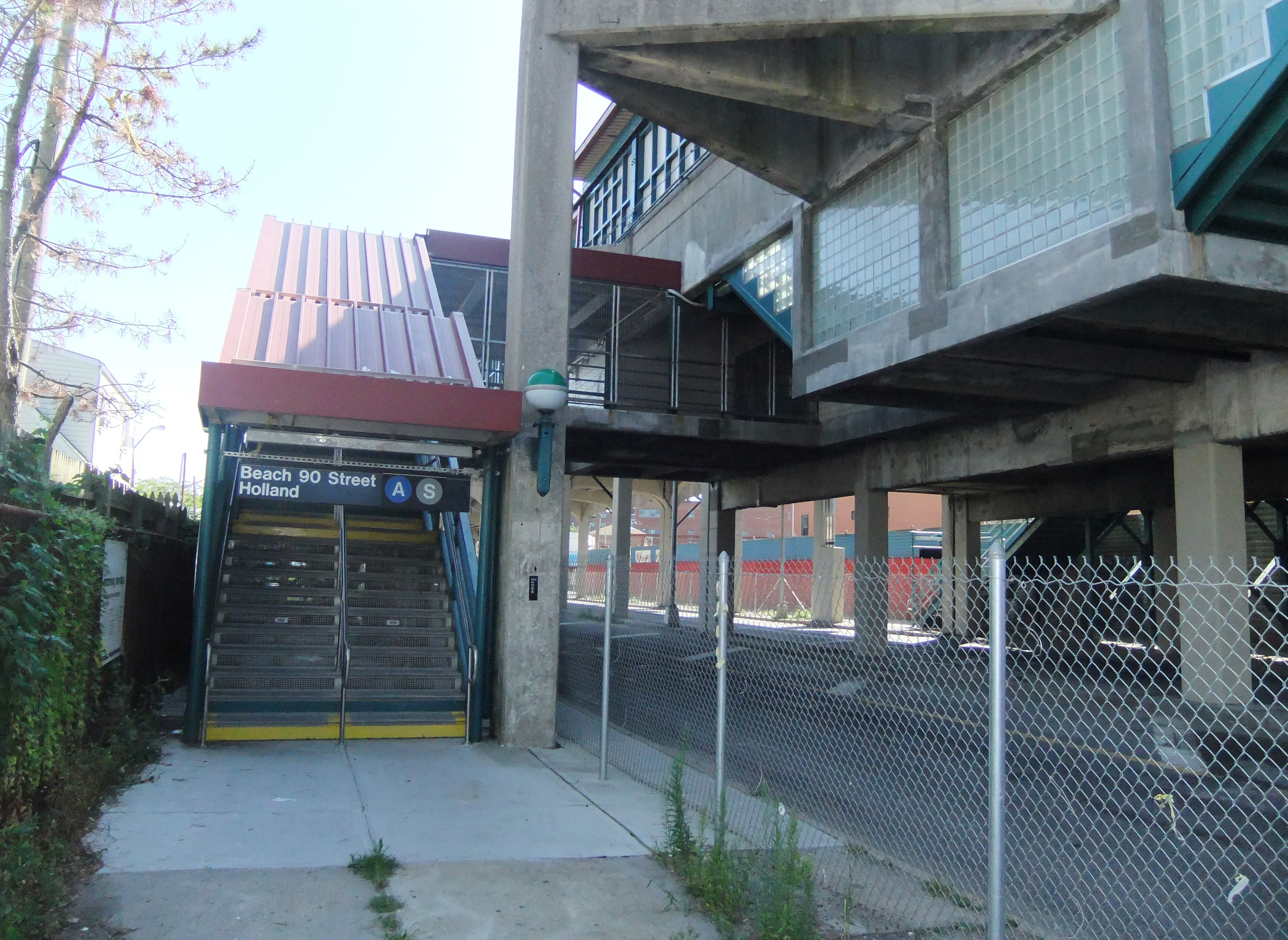 Stairs to Beach 90th Street (street)